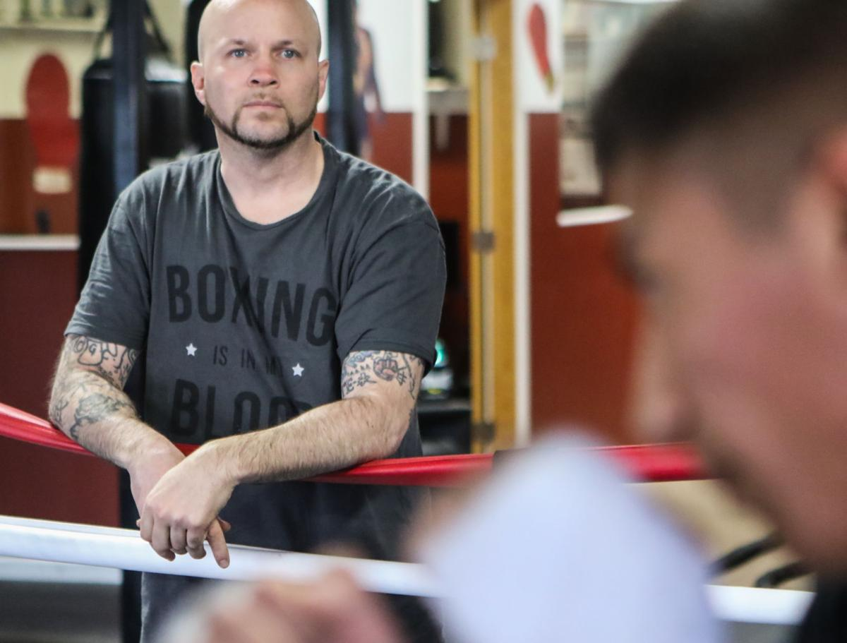 Former World Champion, Angel Manfredy watches Gary, IN boxer Jimmie Ishii as he works out at Carr's Boxing Gym in Crown Point, IN.